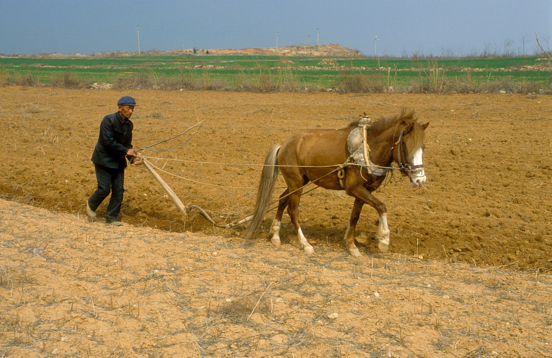 Farmer working land in northern China, 1991.